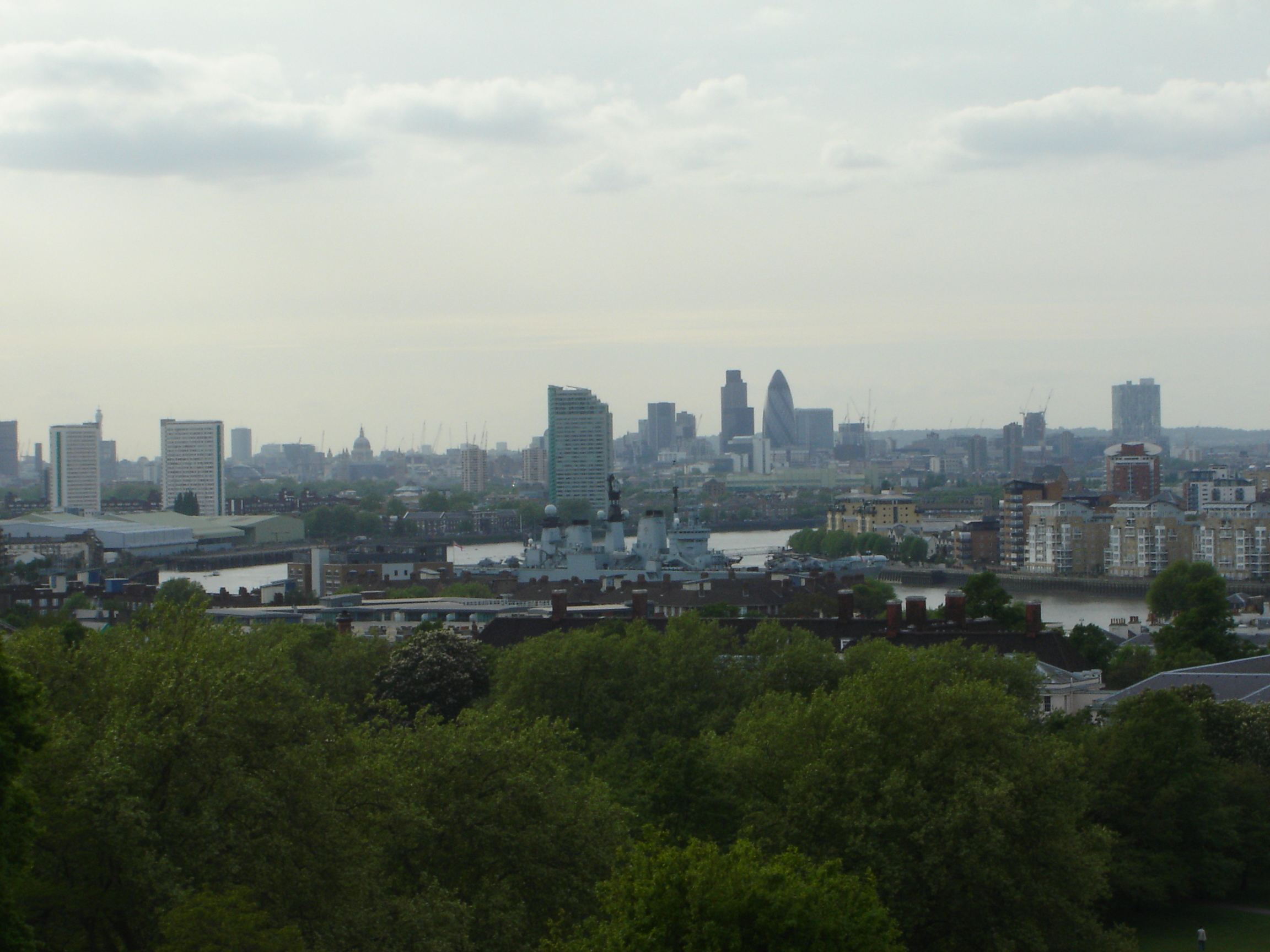 HMS Illustrious moored in Greenwich on the 9th of May 2009, the day after she was the centre piece of a celebration of 100 years of British naval aviation.(Picture taken from the hill in Greenwich Park).